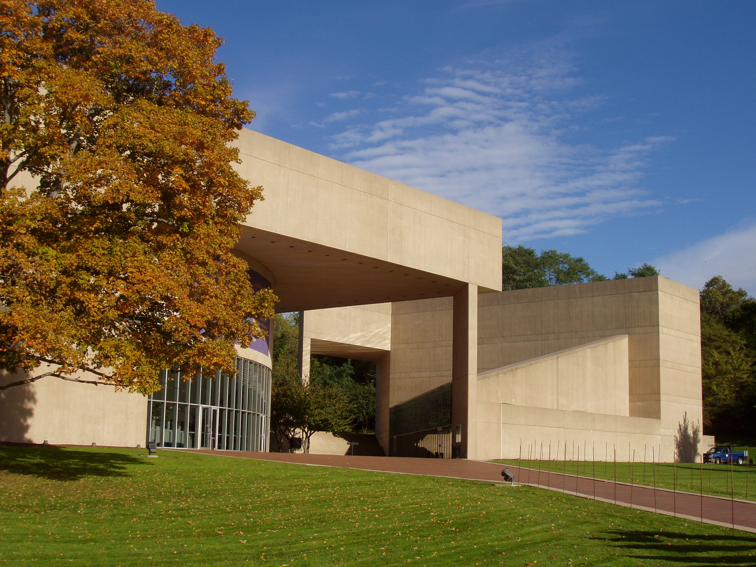 Paul Mellon Arts Center - Choate Rosemary Hall, Wallingford, Connecticut. Architect I. M. Pei; completed 1972. Photograph taken by me, October 2005.